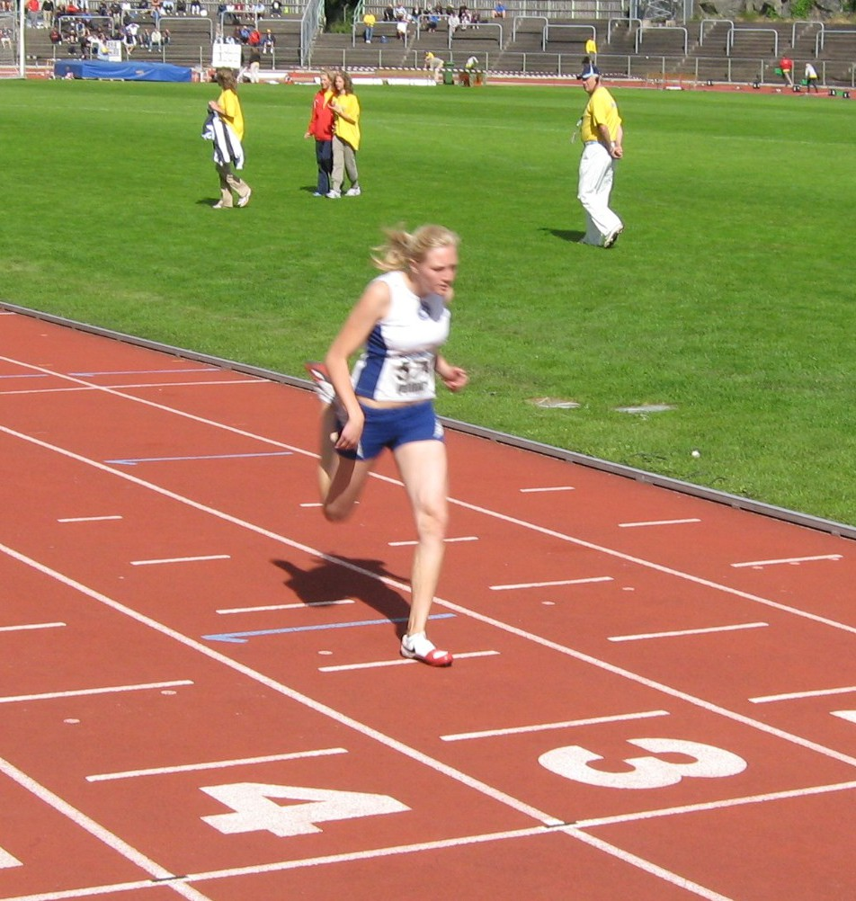 Moa Hjelmer, Swedish athlete, winning the Swedish Youth Championships in Uddevalla 2007.